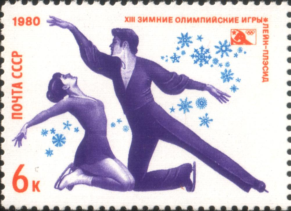 USSR stamp